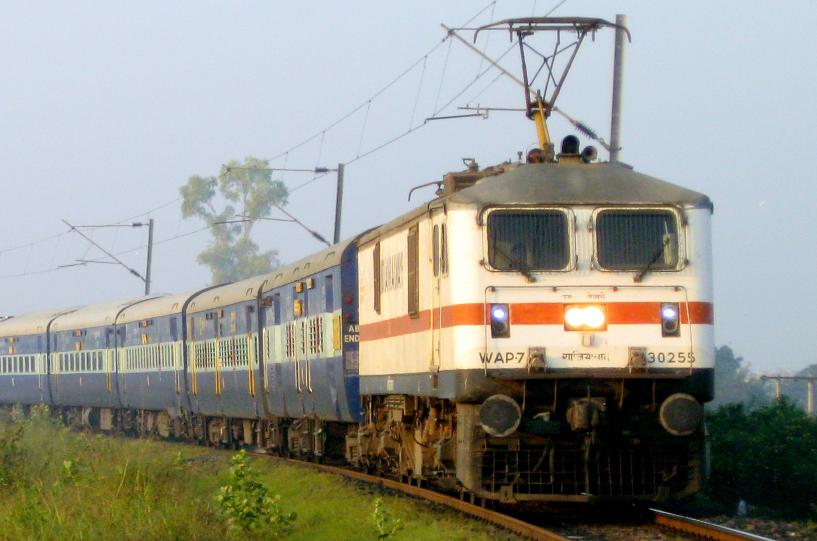 WAP-7 numbered 30255 hauls train number 18237 Chattisgarh Express